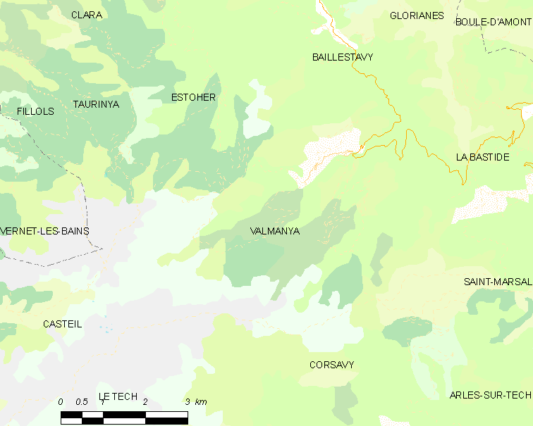 Map of French municipality